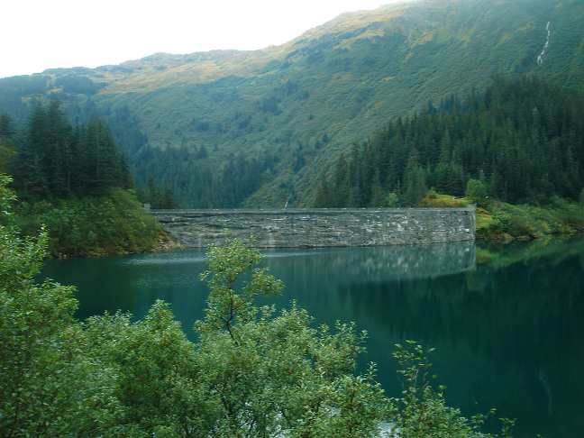 I took this photo while hiking with my friend Mark on September 16, 2011 from the brushy, steep terrain that serves as the "beach" for the reservoir.